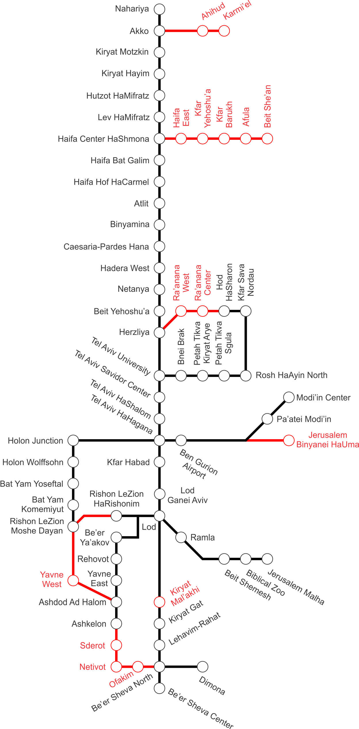 Israel Railways line map for the near future - in black are existing lines and stations, while in red are lines and stations either under construction, or in advanced planning stages.